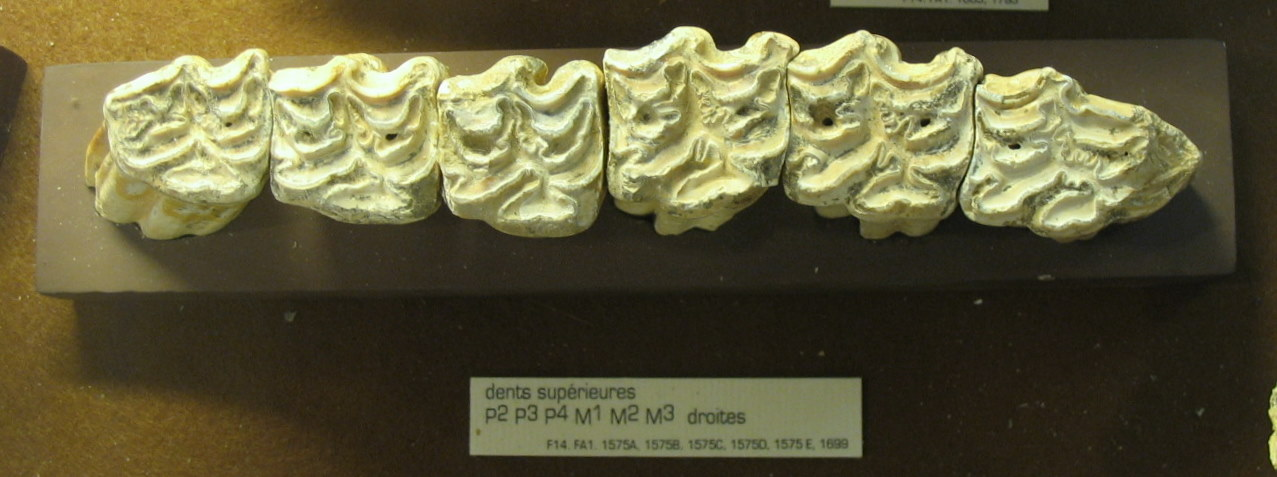 Equus ferus mosbachensis. Right upper dentition, occlusal view. Arago Cave (Caune de l'Arago, Tautavel, France).